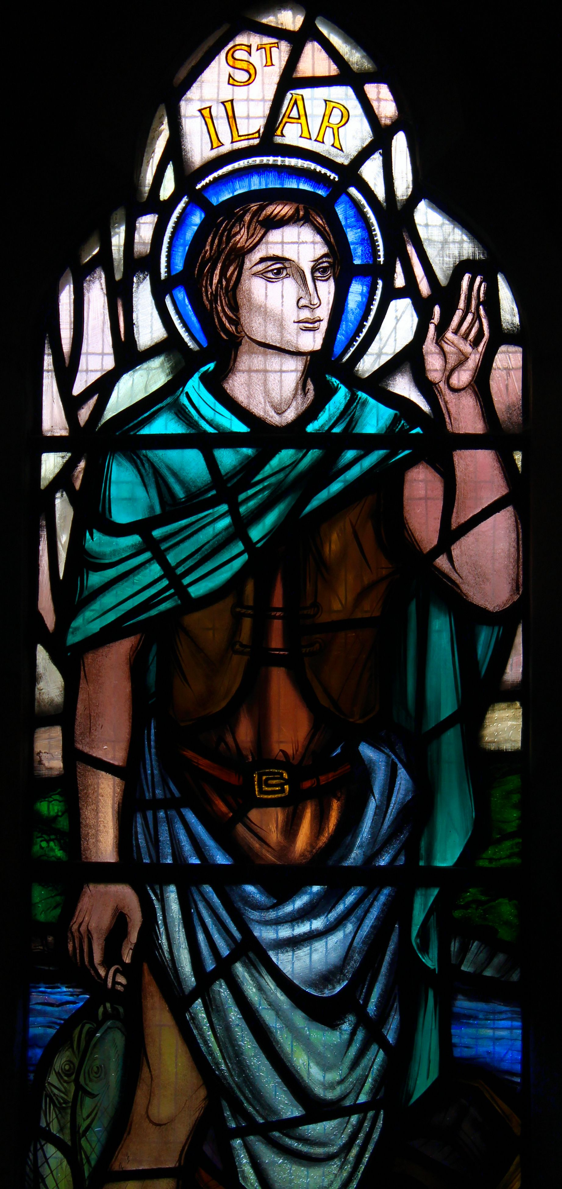 Image of Saint Ilar on stained glass window. The Church o St Ilar ('st ilar'; old incorrect name, kept only as historic record is St Hilary's Church). Grade II* listed building.